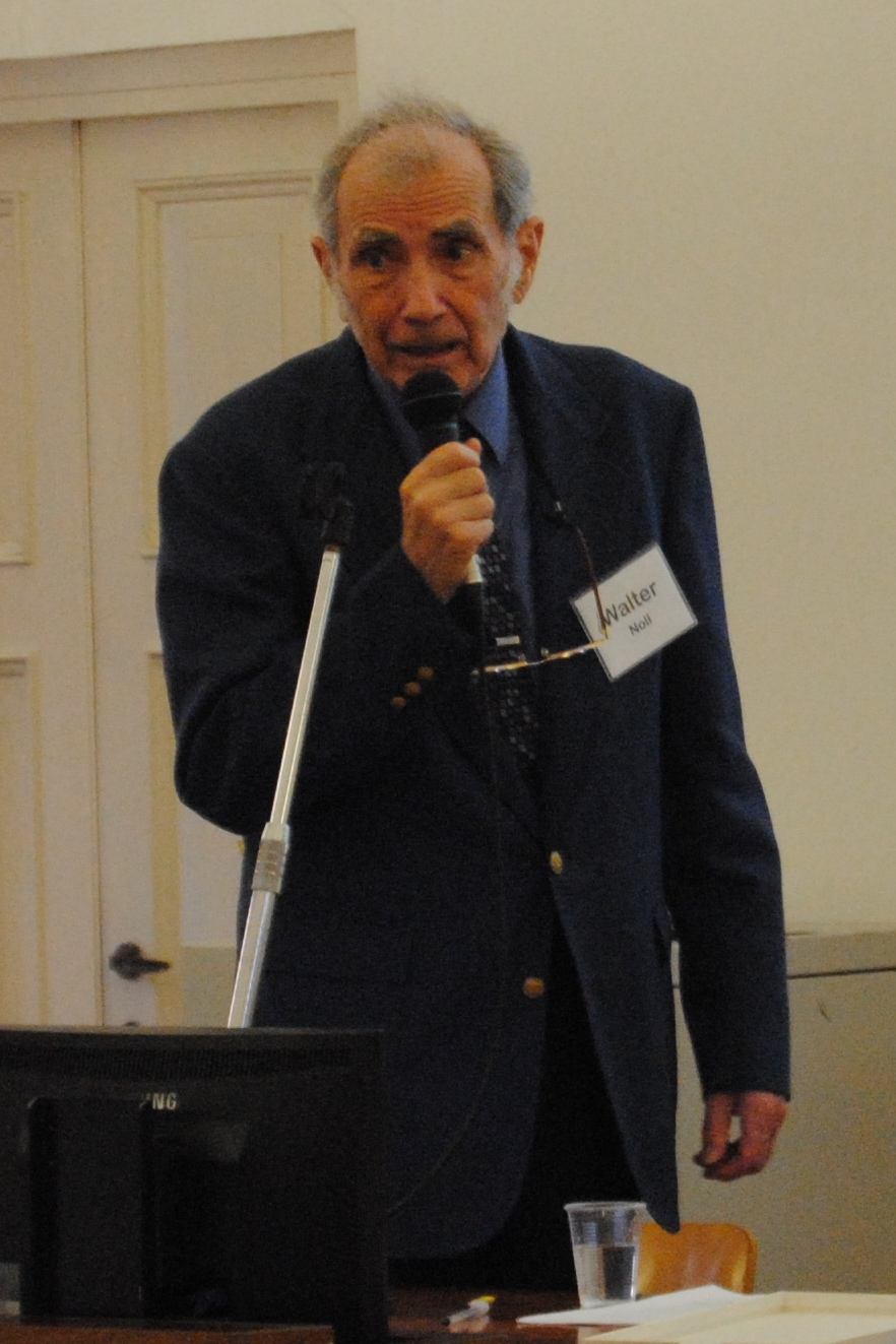 Prof. Walter Noll at the congress "Physics, Astronomy and Engineering - XXXII International Congress of The Italian Society of Historians of Physics and Astronomy" held in Rome